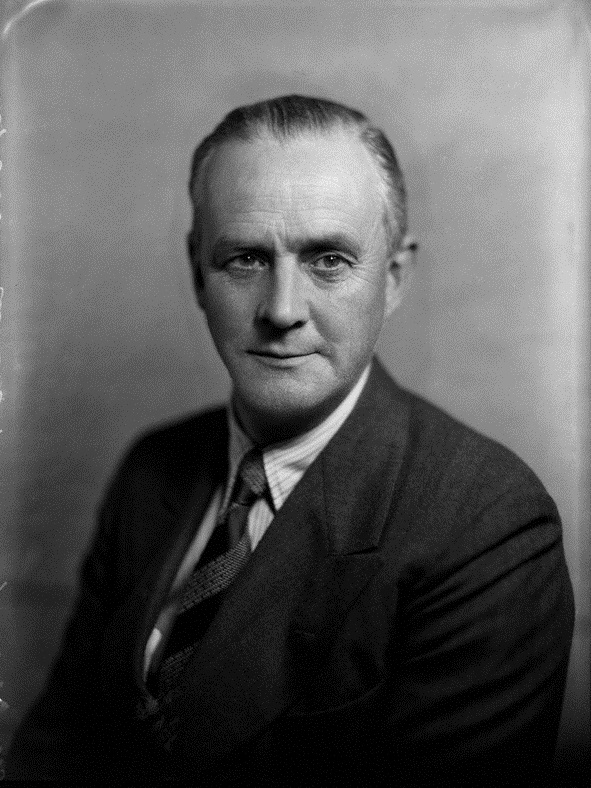 Clement Davies, 24 June 1936